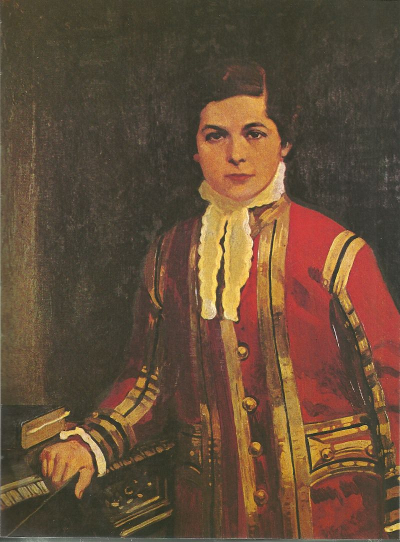 Arthur Sullivan aged about 13 as chorister of the Chapel Royal.